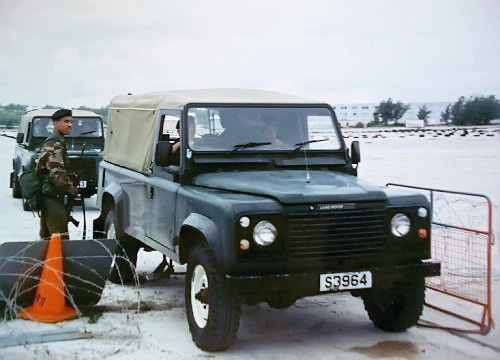 Bermuda Regiment. PNCO Cadre, Internal Security training at USNAS Annex, Bermuda, 1994. Source Uploaded by author. Aodhdubh 02:52, 21 December 2006 (UTC)